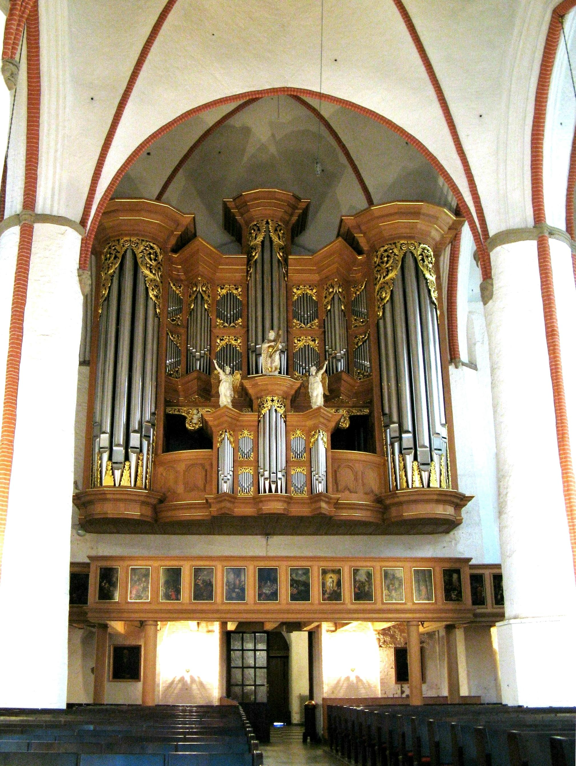 Arp Schnitger organ in the church of St. Jacobi, HamburgThis is a photograph of an architectural monument.